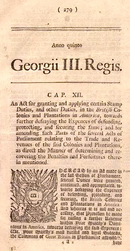 Newspaper posting of Stamp Act